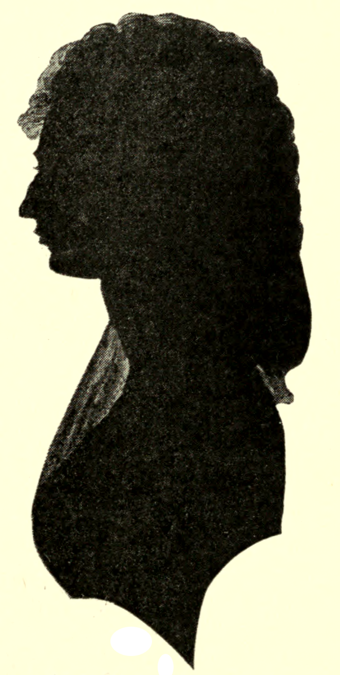 Silhouette of Caroline Herschel, William Herschel's sister and collaborator.